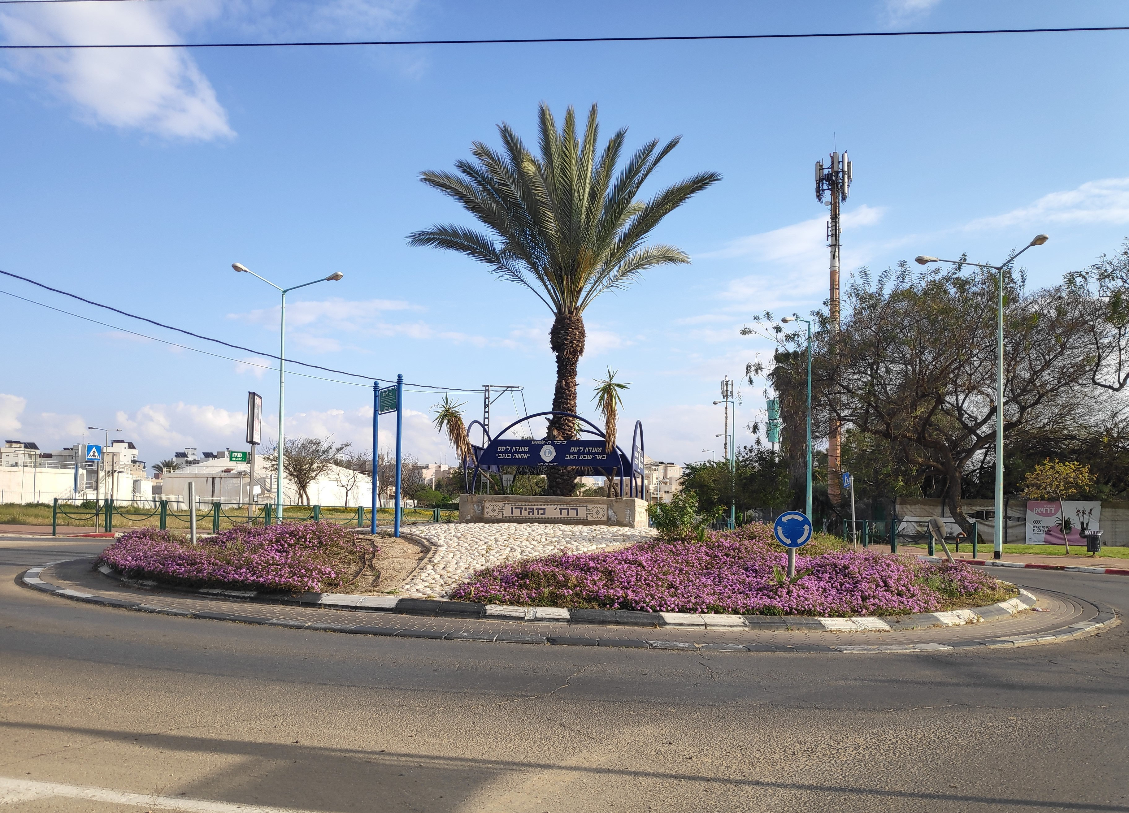 Lyons Square Beer Sheva 2020